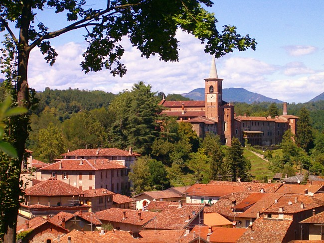 Castiglione Olona Picture taken by user:Idéfix, august 2004